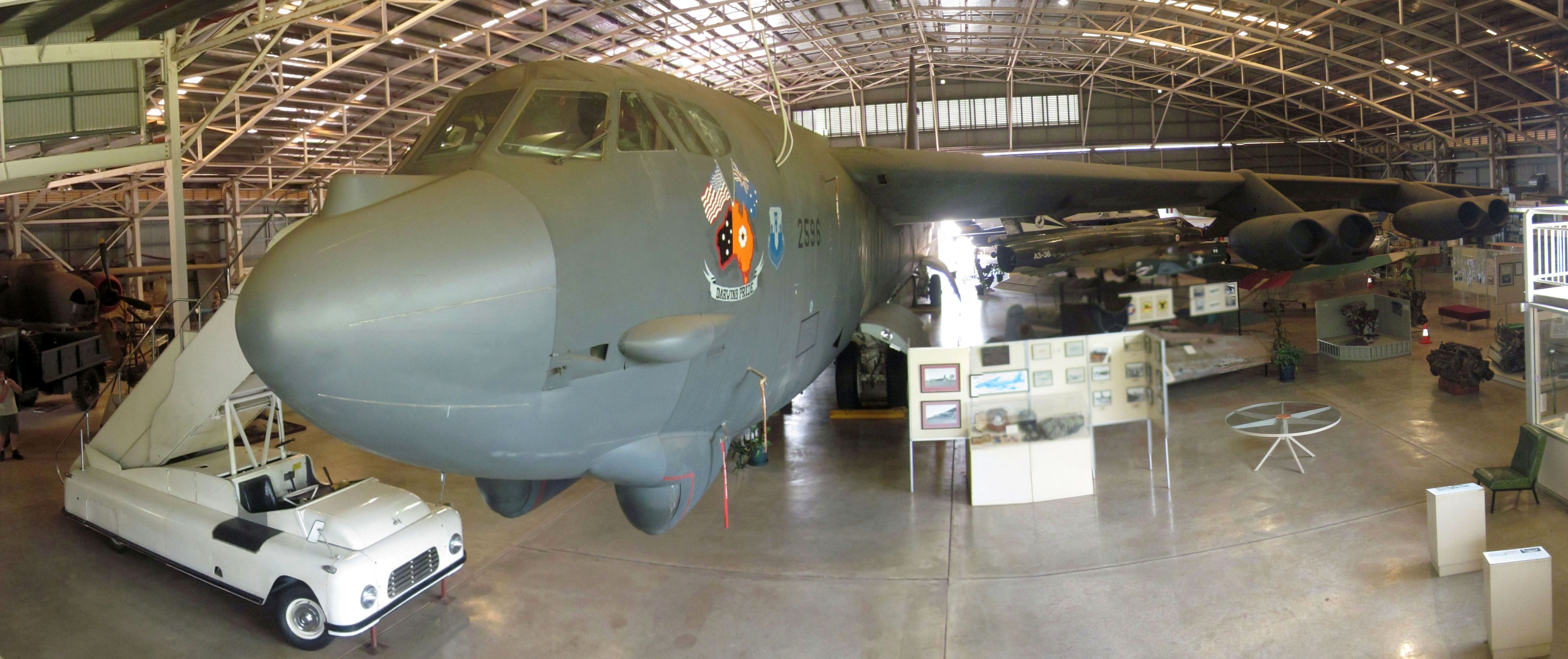 This massive B-52 bomber is on permanent loan from the United States Air Force and is one of only two on public display in the world outside the USA.It is now at the Australian Aviation Heritage Centre in Darwin.